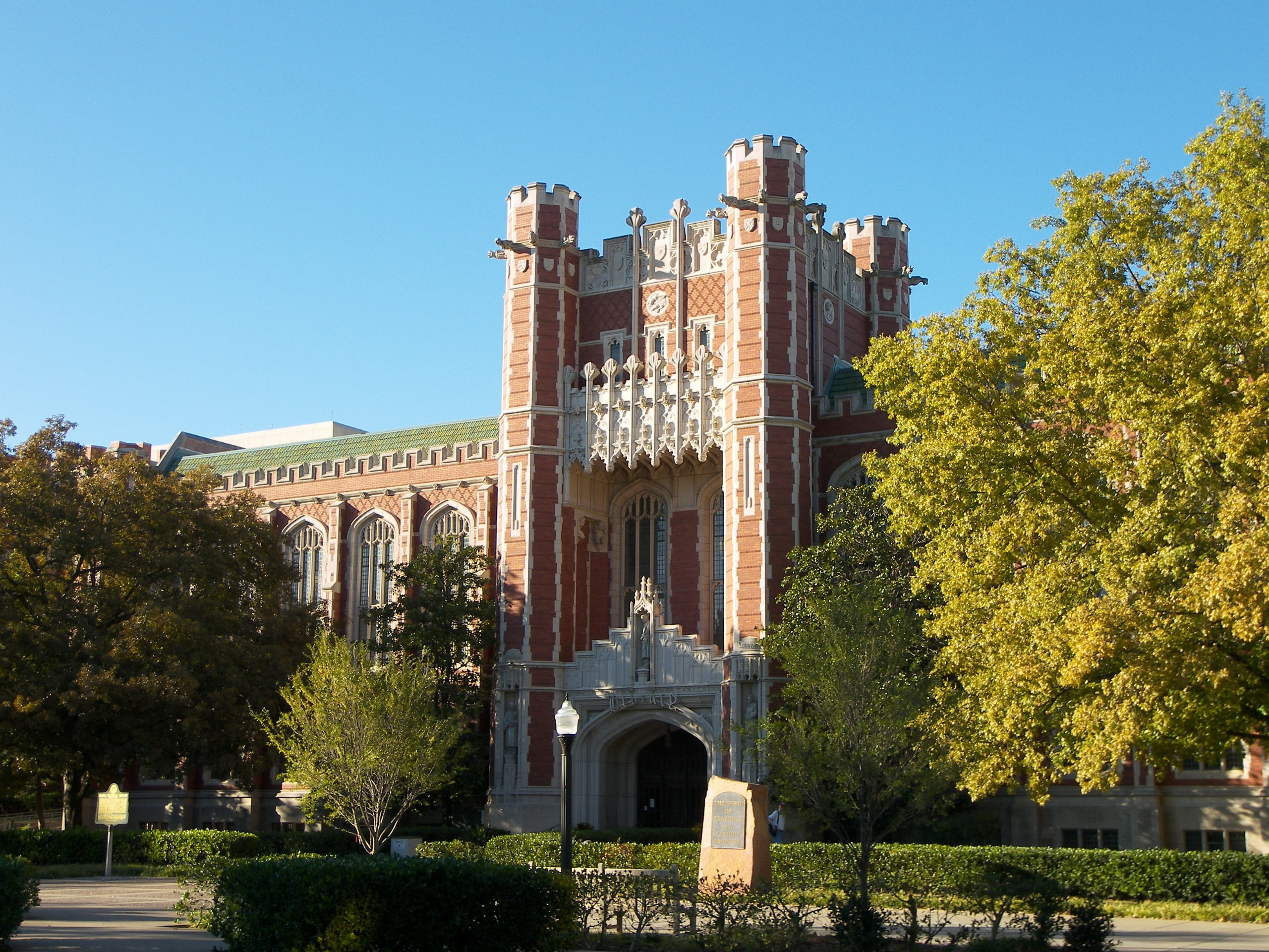 The Bizzell Library on the University of Oklahoma campus in Norman, Oklahoma.